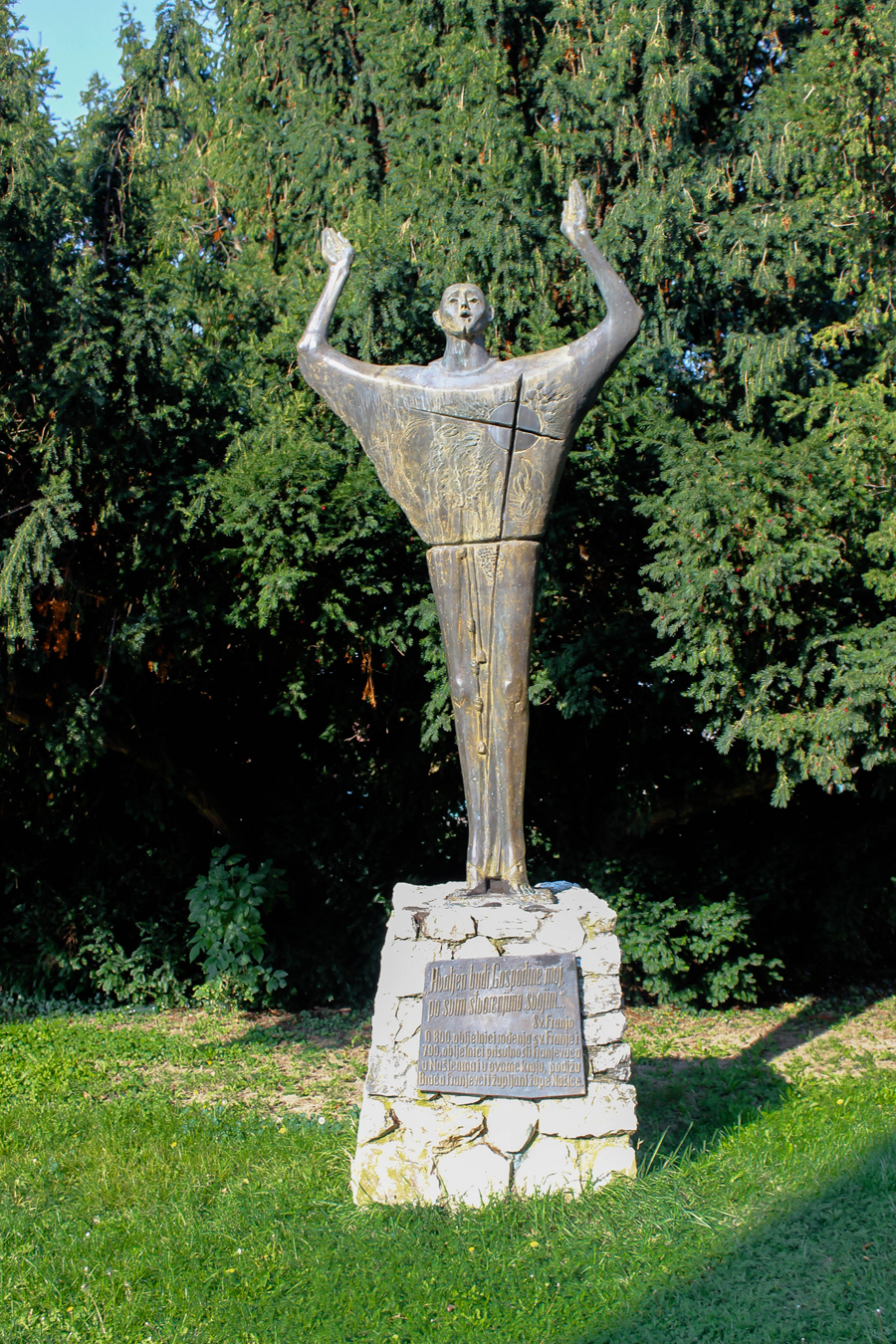 Monument